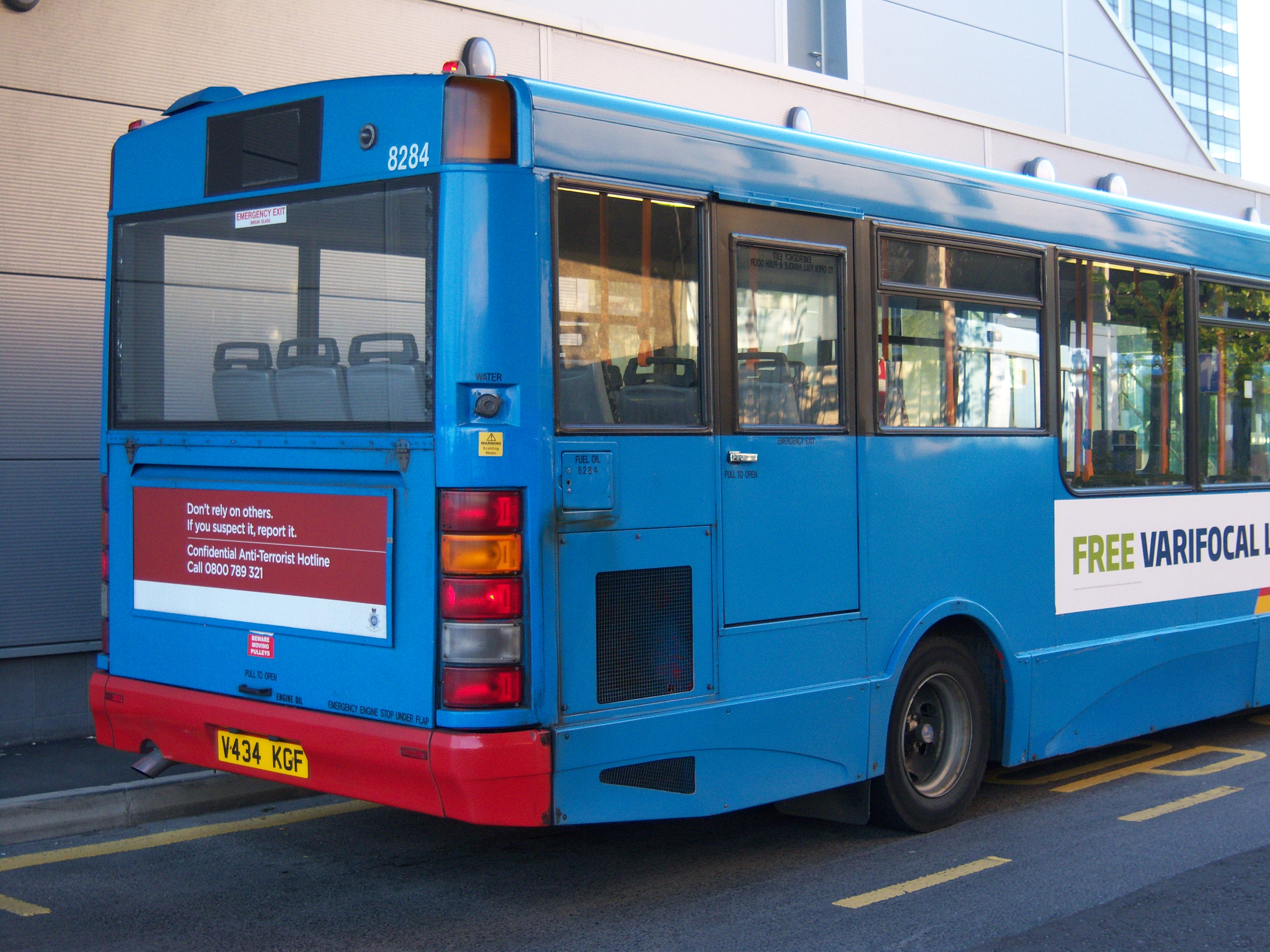 Go North East bus in Washington, Tyne and Wear